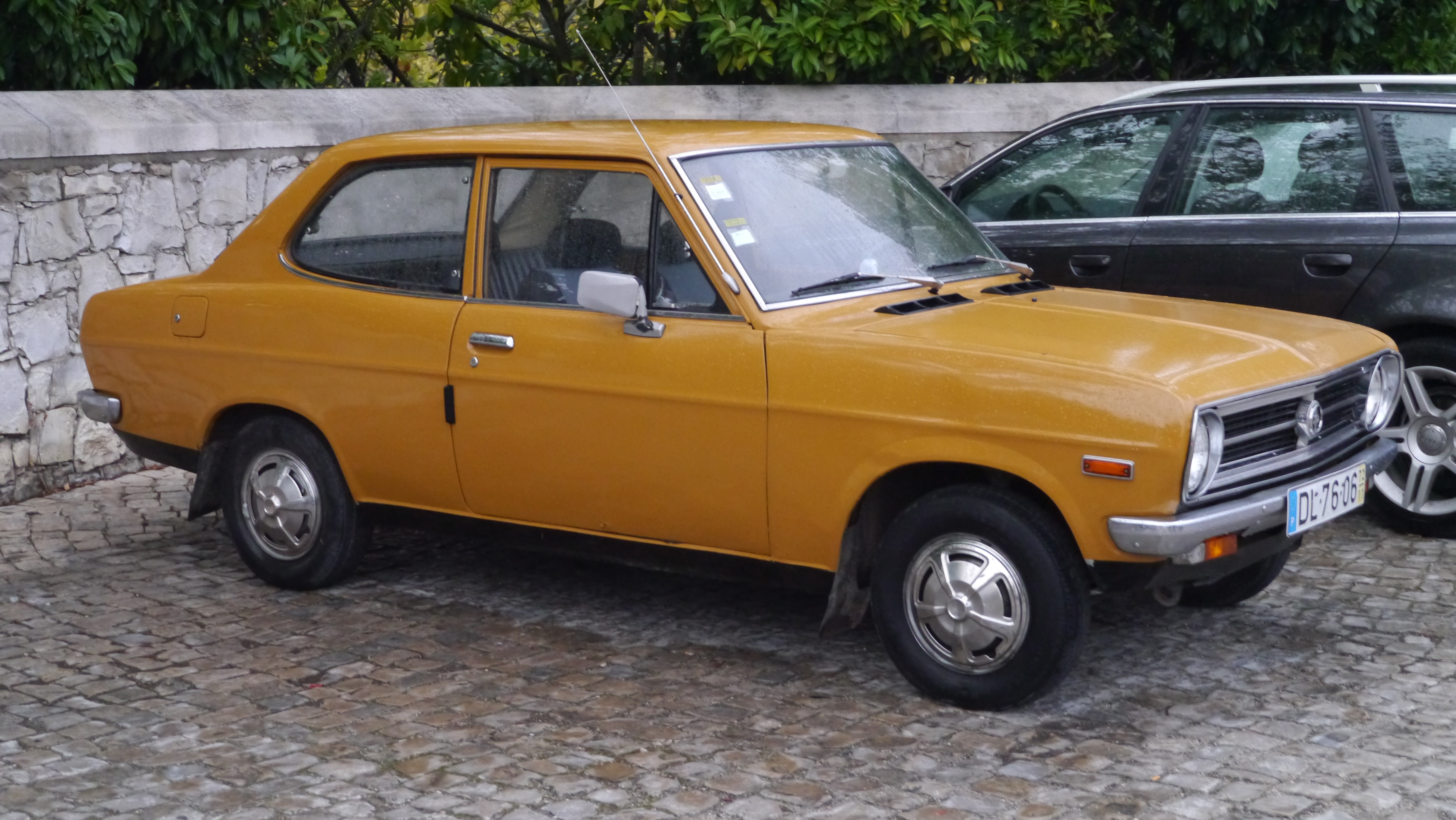 Fatima, Portugal. This was a surprise find for me! I didn't expect to see an older Japanese car still being used as a daily driver in Portugal and from the looks of it, it's had a very caring owner!